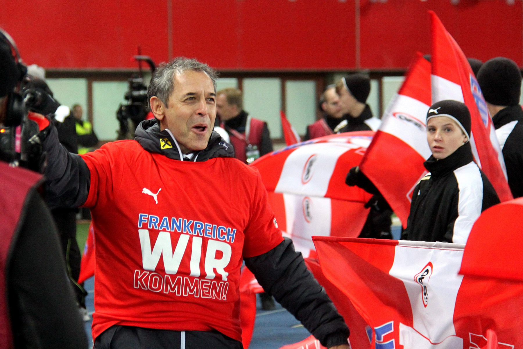 UEFA Euro 2016 qualifying, Group G – Austria (red shirts) vs. Liechtenstein (blue shirts) 3–0 (1–0) on 2015-10-12 in Ernst-Happel-Stadion, Vienna – The photo shows Marcel Koller (headcoach).